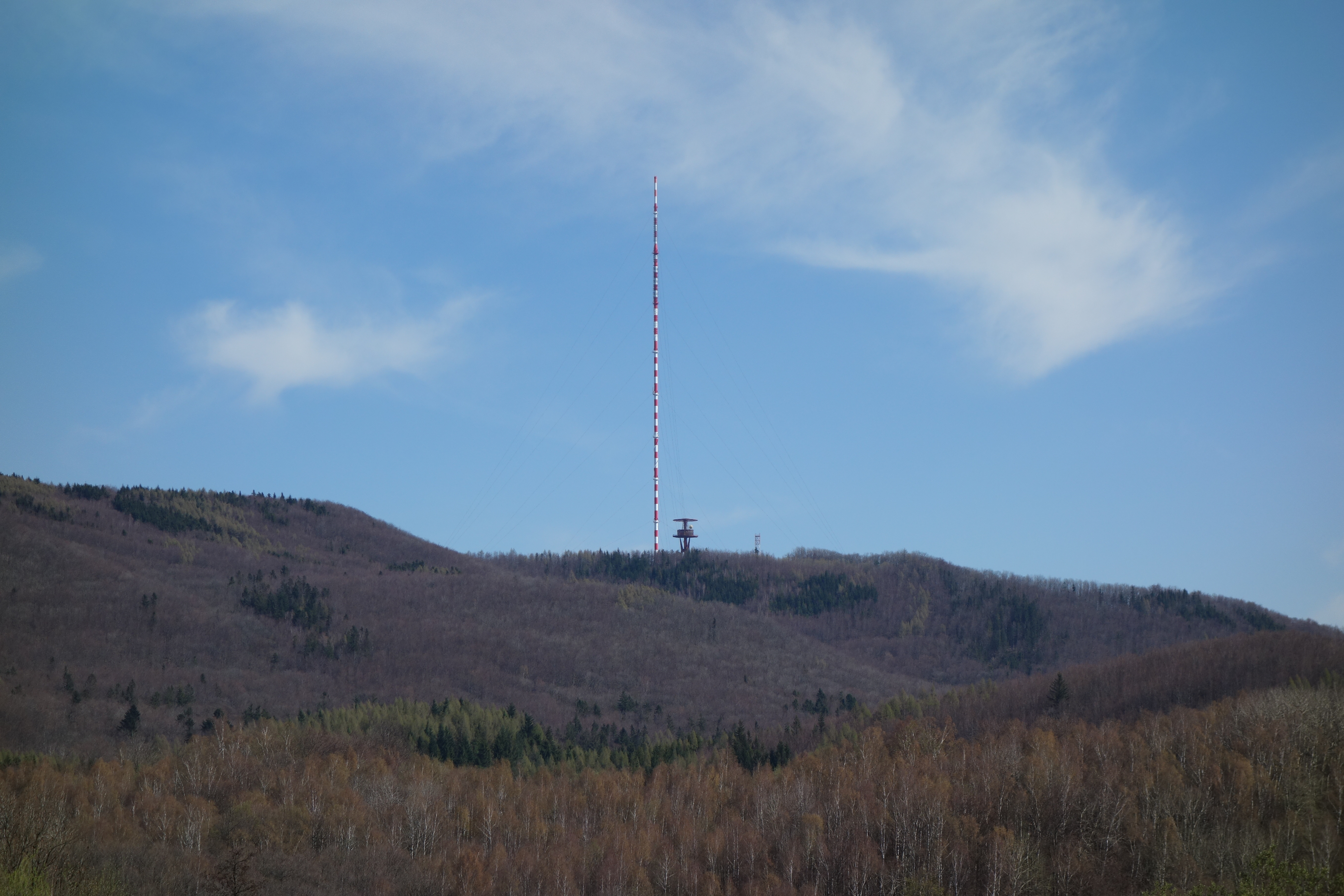 Transmitter Dubník (Slanské vrchy) with its height of 318 meters, it is the highest building in Slovakia